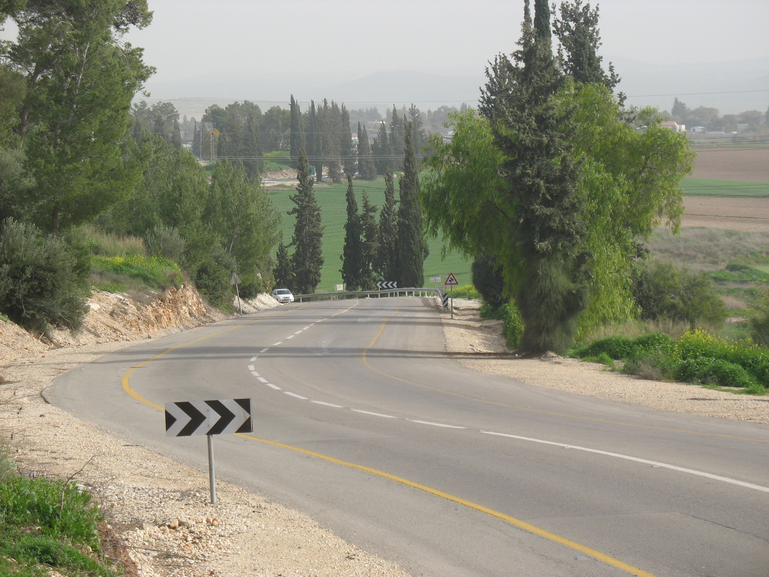 View to road 411 south of Yaar Hulda, Israel